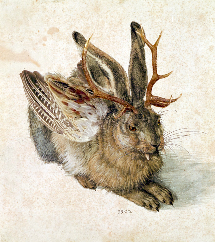 a Wolpertinger